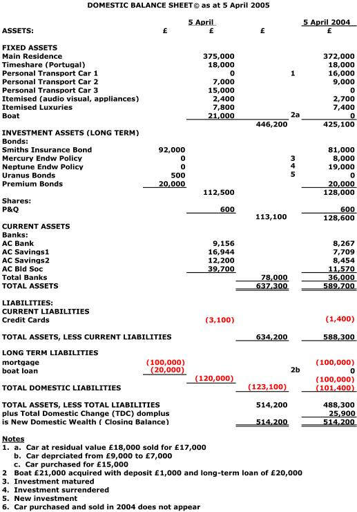 Sample Domestic Balance Sheet (DBS)to be referenced by Domestic Well-Being Accounting (DWBA)